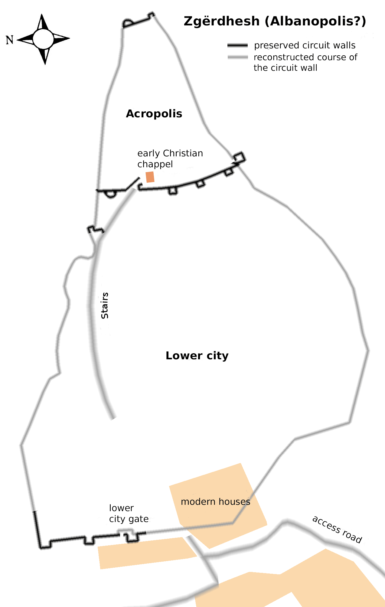 Simplified map of Zgërdhesh, Kruja, Albania with English labels